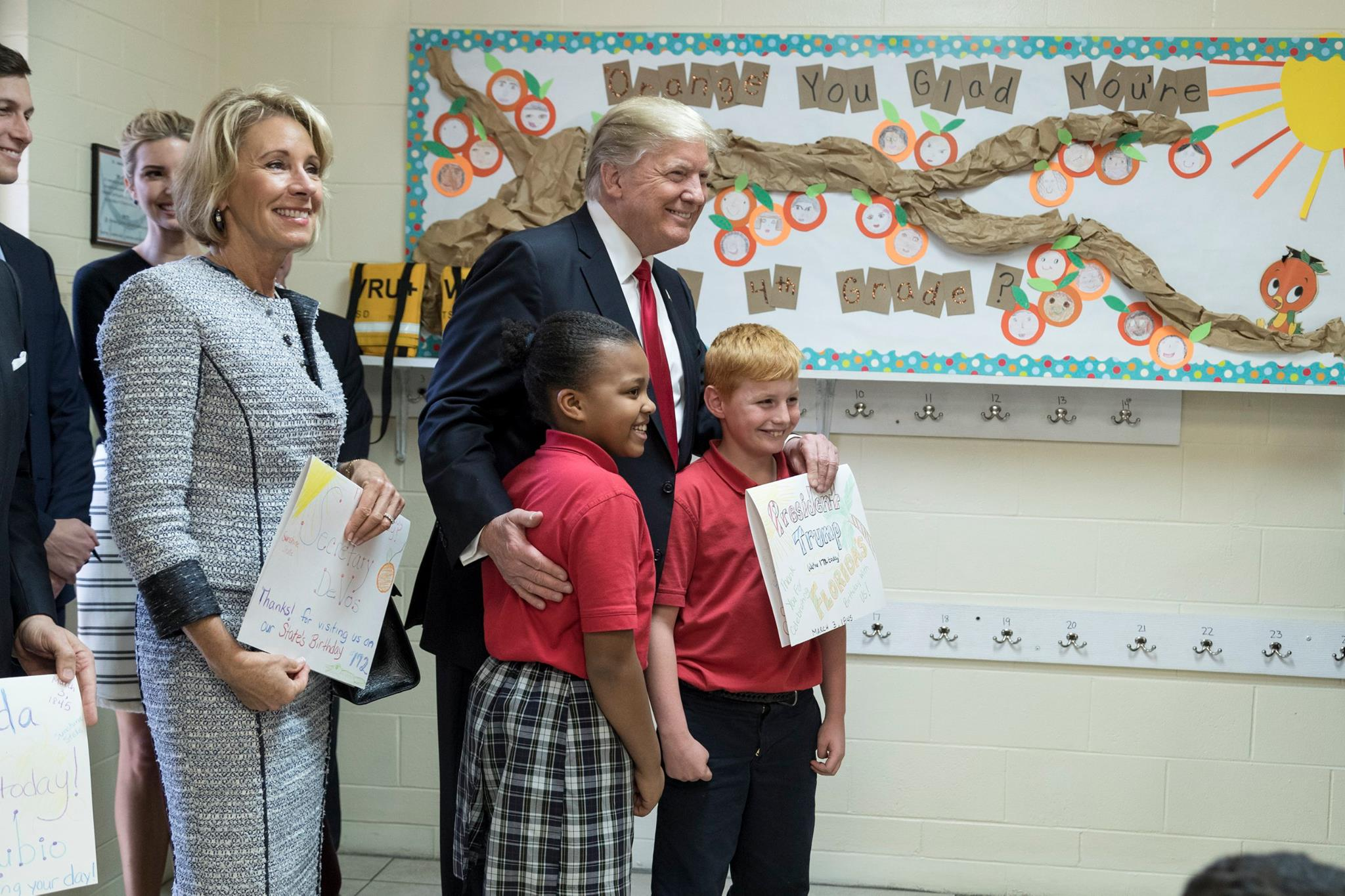 President Donald Trump poses for a photo with students of Saint Andrew Catholic School on Friday, March 3, 2017, during a tour of the school in Orlando, Florida. Also shown is U.S. Secretary of Education Betsy DeVos.